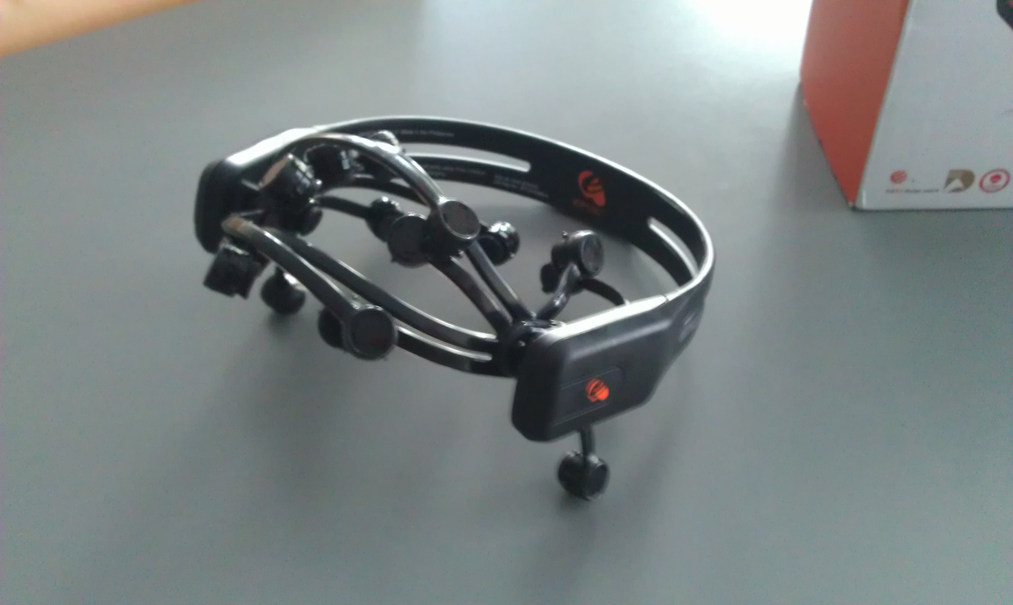 Emotiv EPOC headset with sensors installed